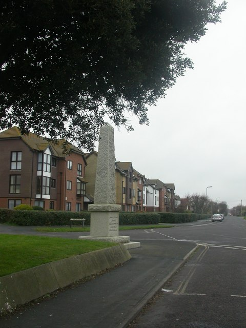 Barton on Sea, obelisk. English Heritage-listed obelisk, erected to commemorate injured Indian WW1 troops who were cared for at nearby Barton Court, immediately to the south. Barton Court has largely been demolished, before it fell into the sea. For details of inscriptions on north & east faces, see 1088446 & 1088453.